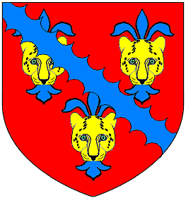 Arms of the Denys family of Glamorgan and of Siston and Dyrham, Gloucestershire, England, UK: Gules, three leopard's faces or jessant-de-lys azure over all a bend engrailed of the last. Drawn from life, based on commons File:Leopard in the Colchester Zoo.jpg by Keven Law